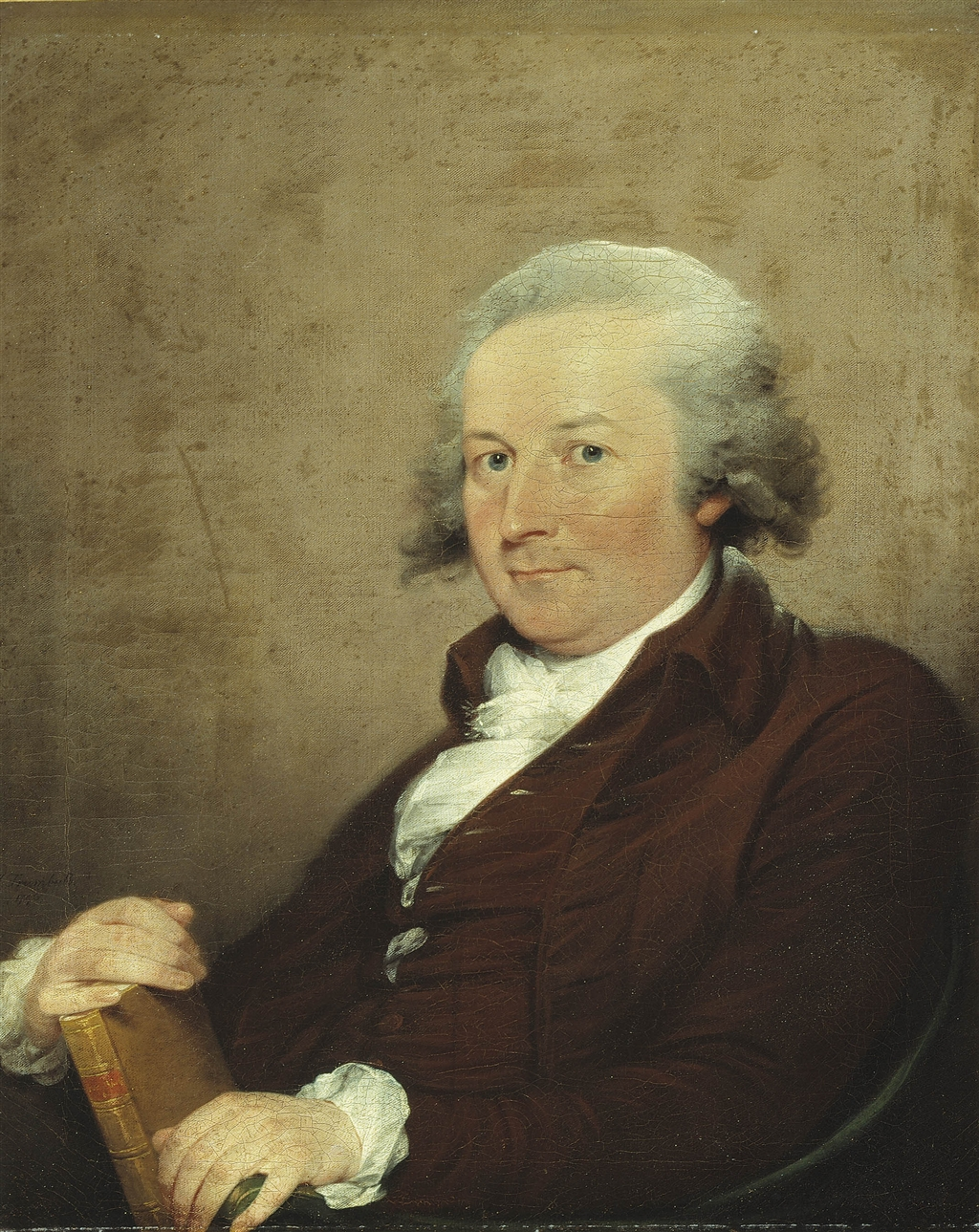 This is by John Trumbull, the painter (1756-1843), and shows his cousin of the same name, the poet (1750-1831). See catalog by Helen A Cooper: John Trumbull, New Haven, 1982, p. 144